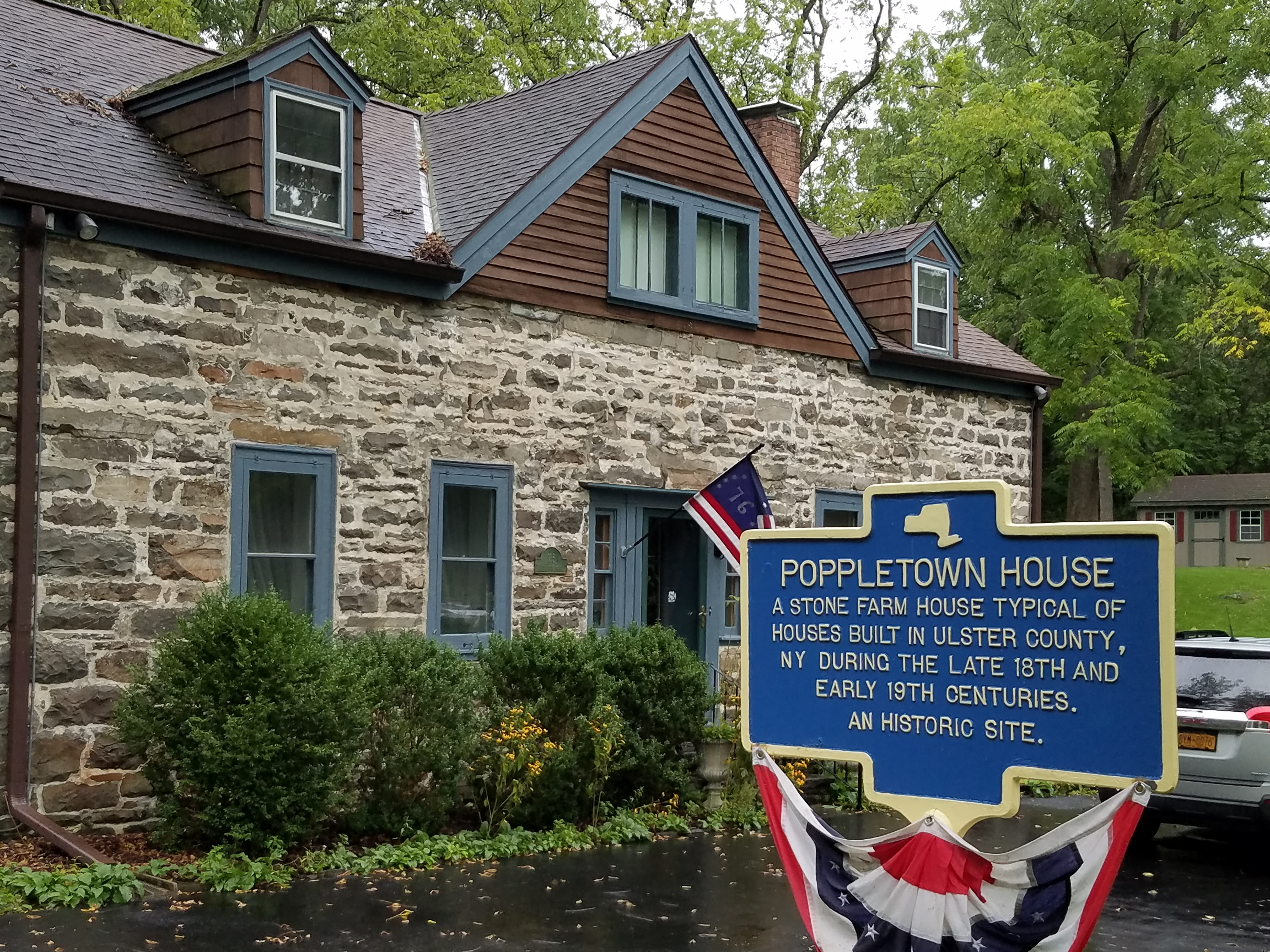 New York State historic marker for the Poppletown Farmhouse in Ulster County, NY. The house is on the National Register of Historic Places.